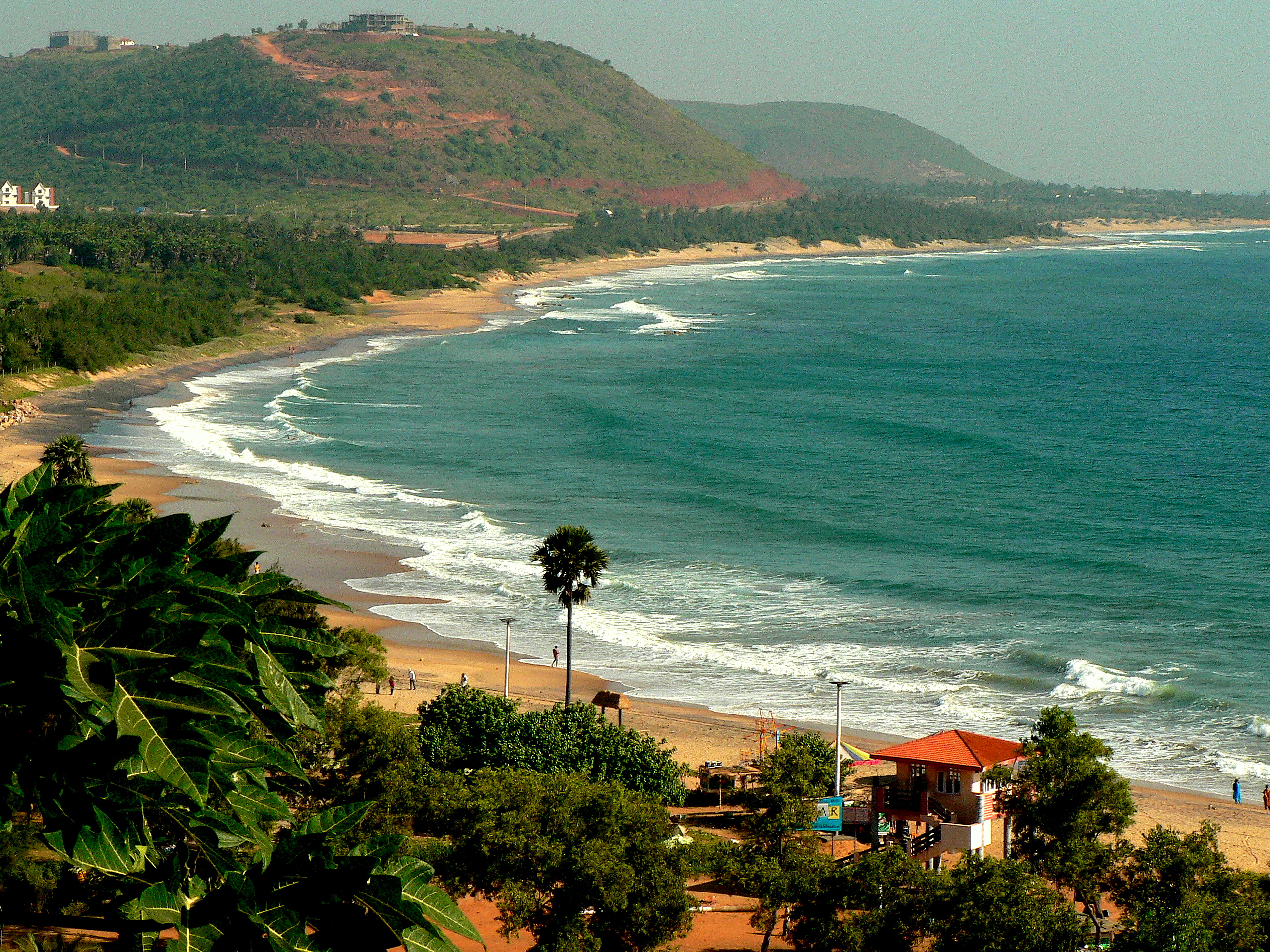 Rushikonda beach view, Visakhapatnam, Andhra Pradesh